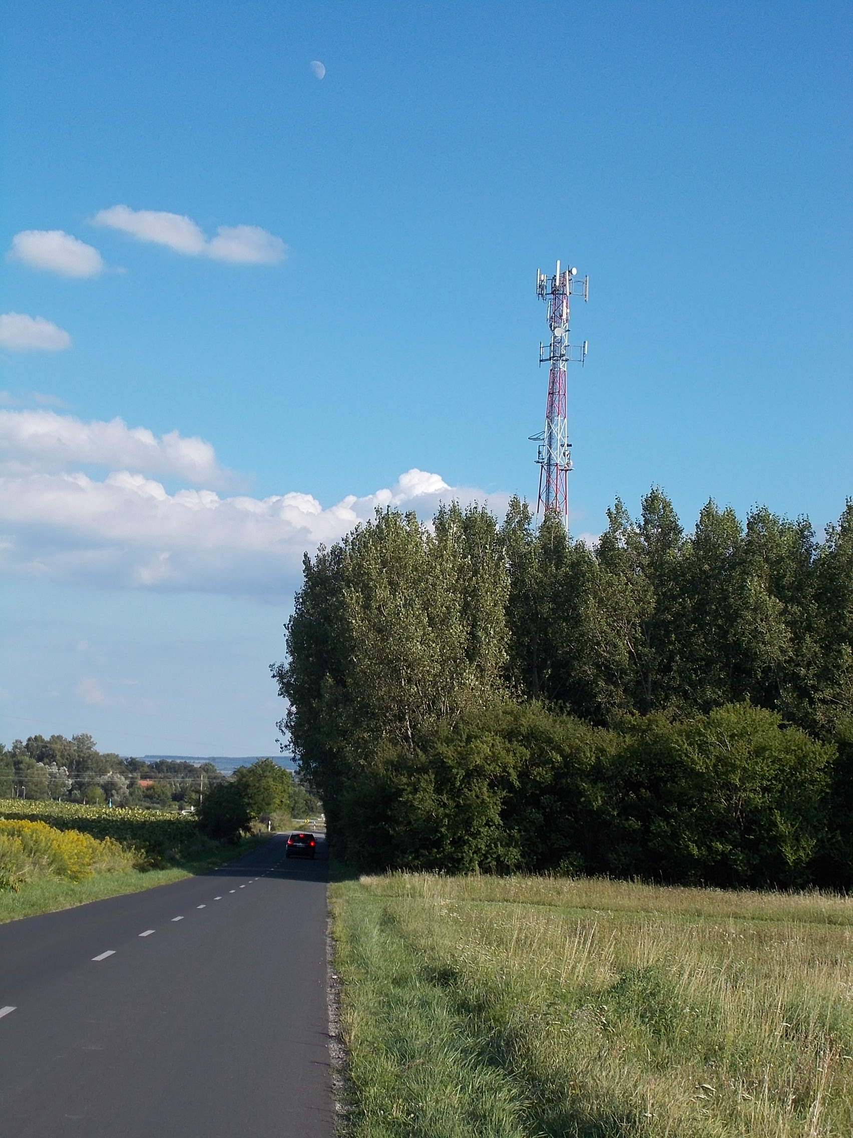 Antenna tower at the roundabout of Route 71 and Hévízi road. - Keszthely, Zala County, Hungary.